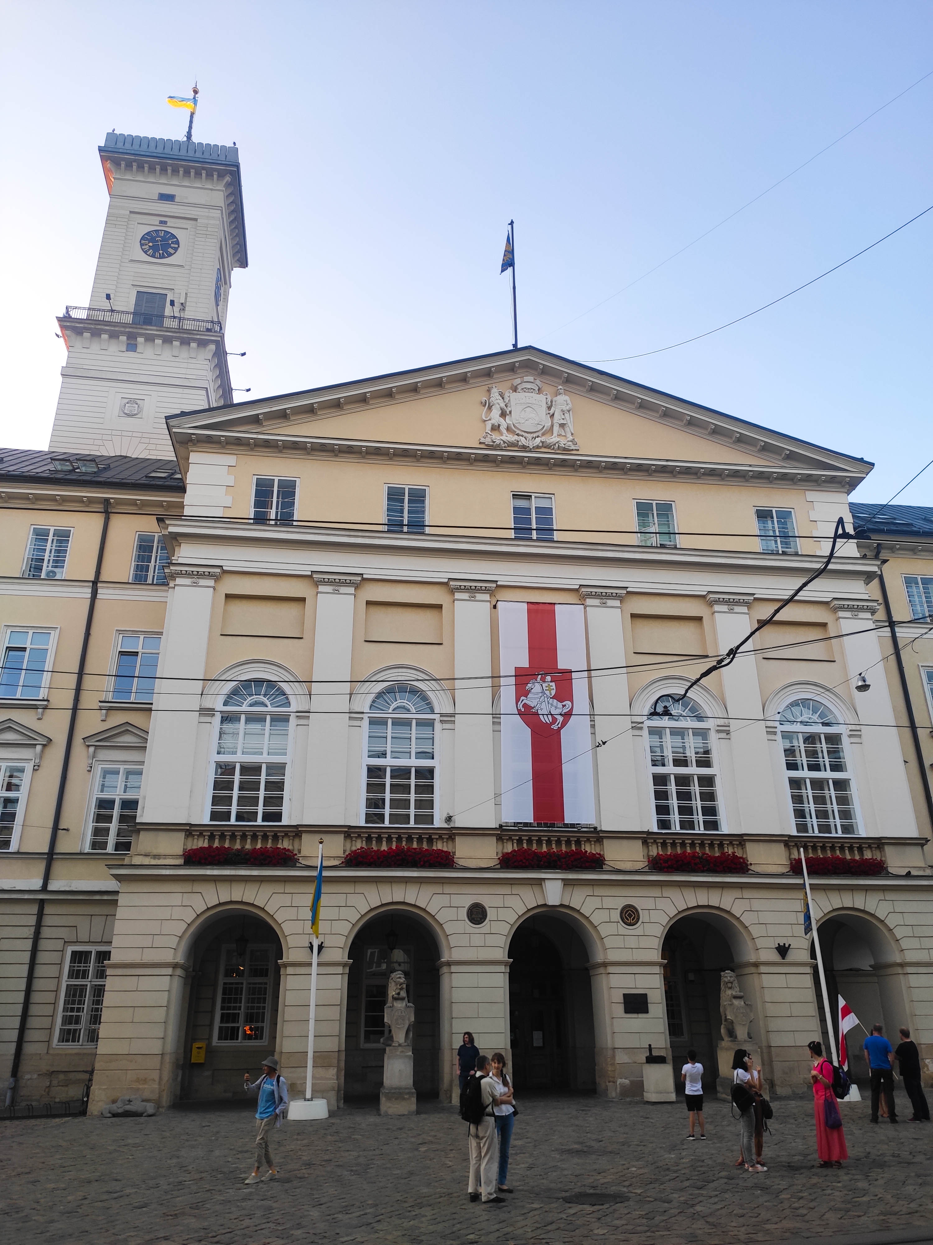 Belarusian national flag at Lviv City Hall in support of Belarusian protests in August 2020.